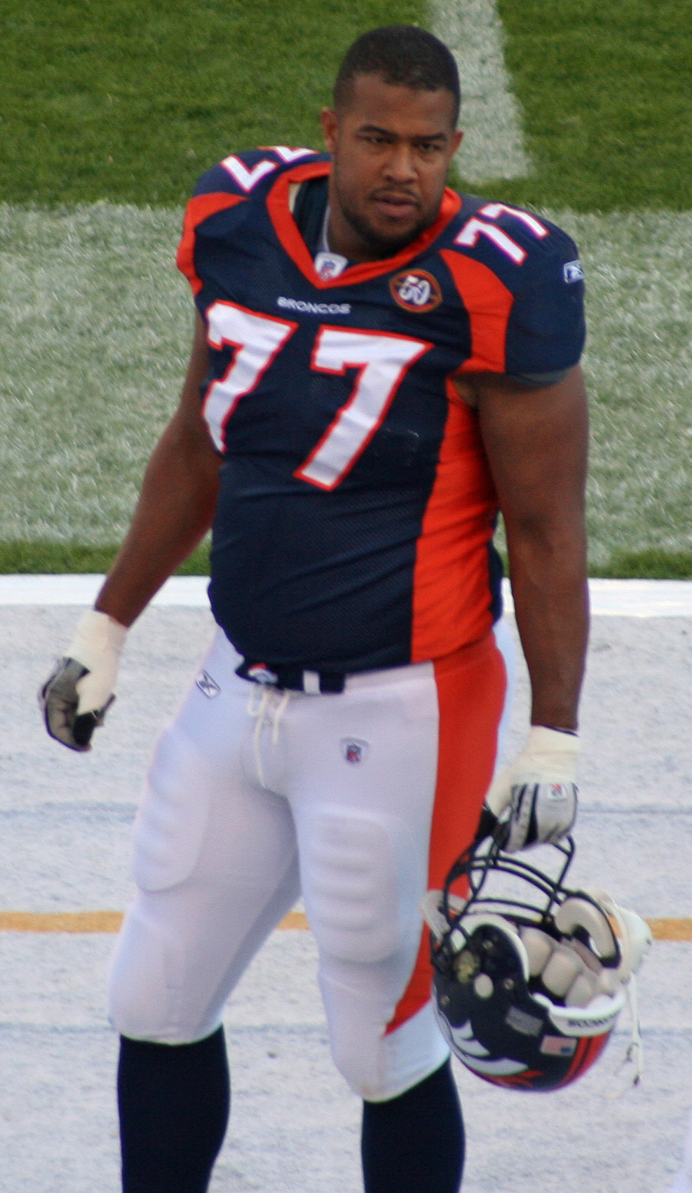 Brandon Gorin, a player with the Denver Broncos American football team.